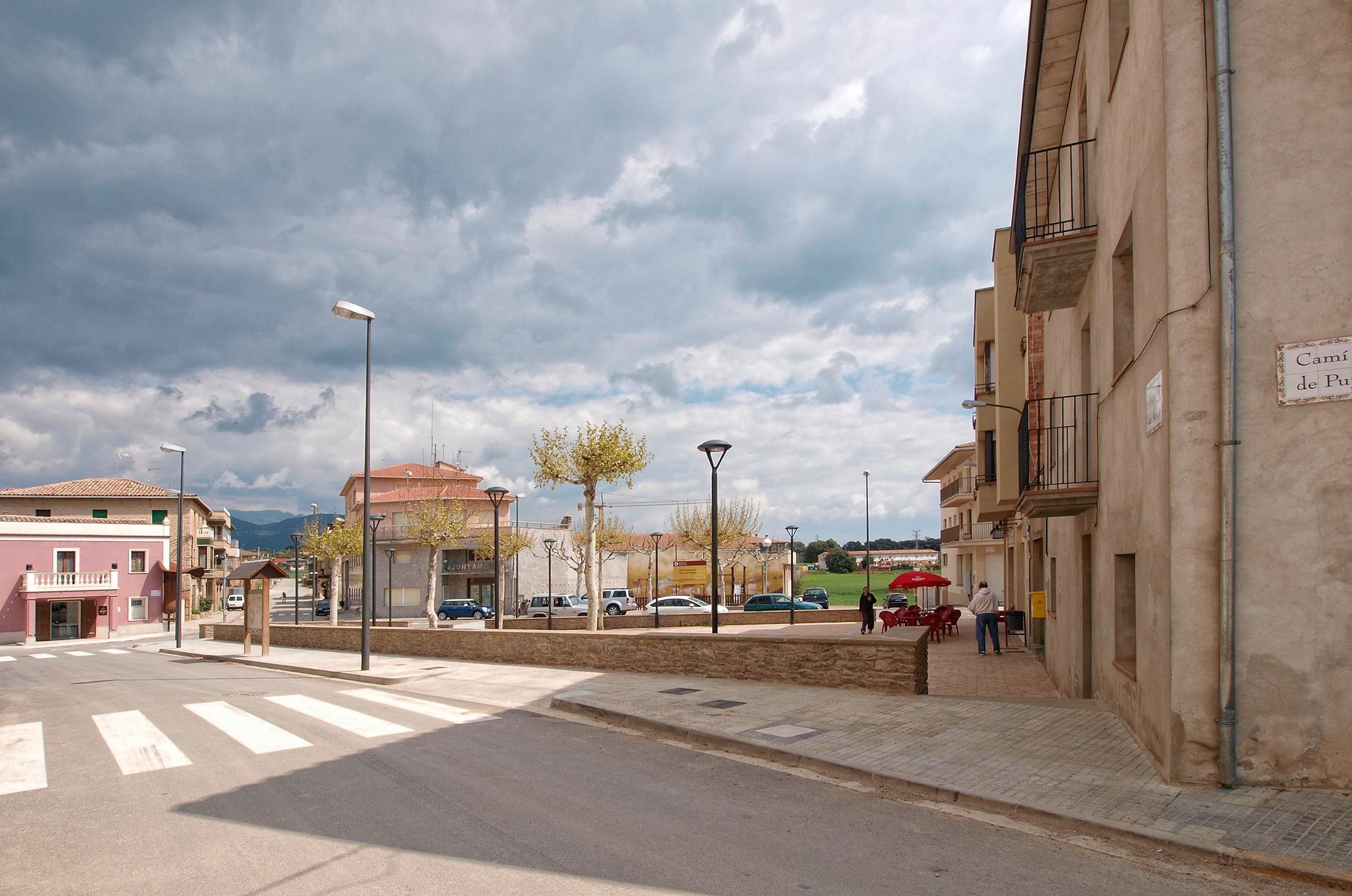 Marketplace from Montmajor (Catalonia, Spain)